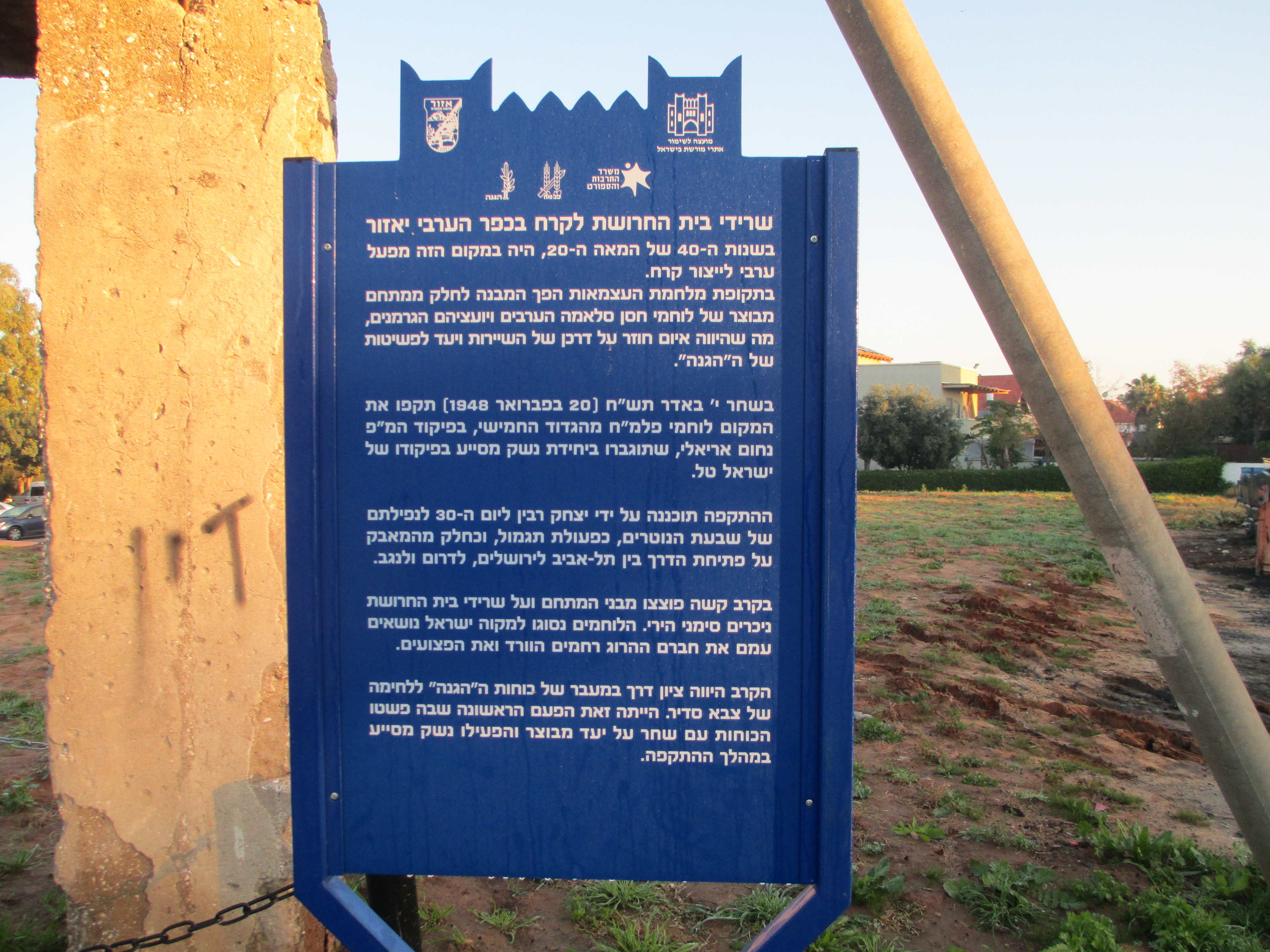 Palmach memorial in Azor